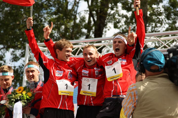 Czech relay team wins WOC Relay, Aug 2012